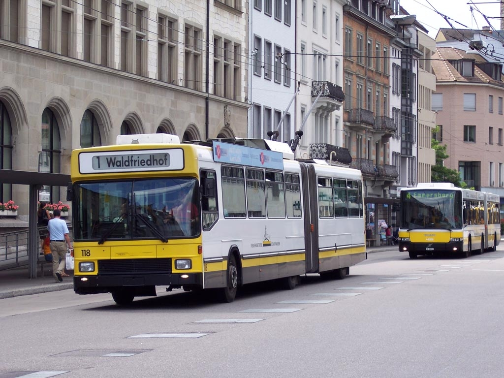 Schaffhausen's only trolleybus line is operated by a fleet of eight NAW BGT 5-25 with Hess bodies. Number 118 was photographed outside the railway station with a Hess-bodies Volvo B7LA diesel bus behind.